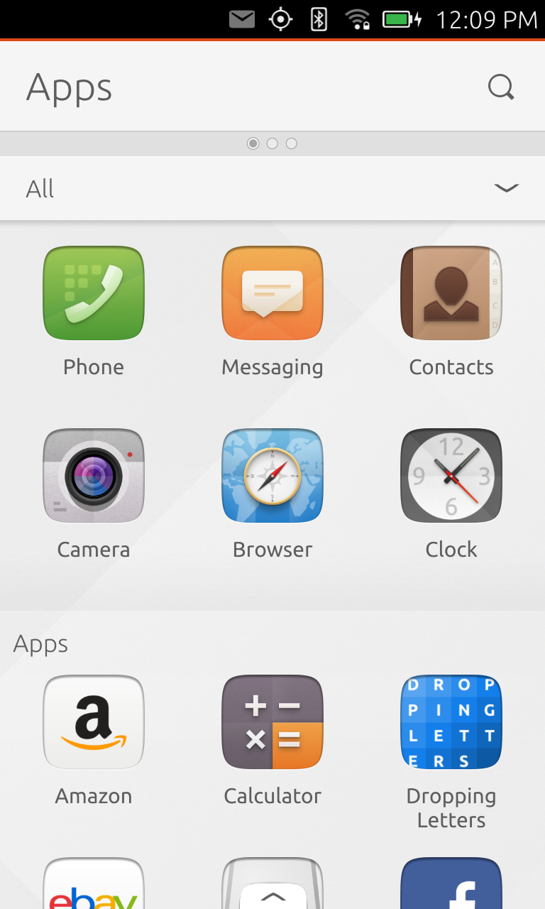 Ubuntu Touch apps screen as of February 2015